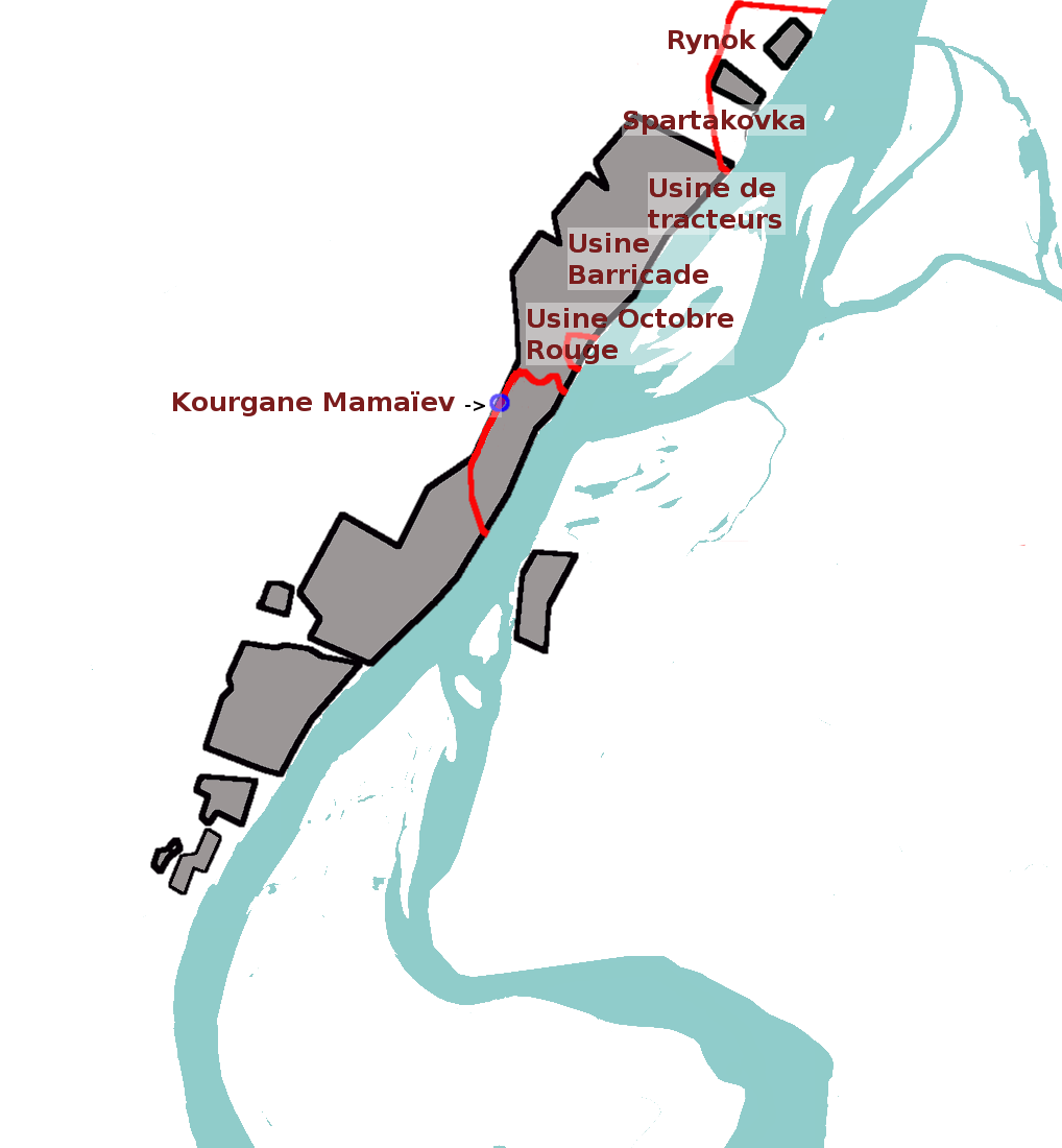 Battle of Stalingrad - German advance - 1942-11-13